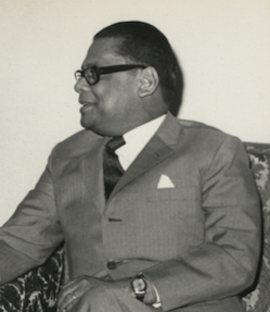 Abu Sayeed Chowdhury at the office of the Vice-Chancellor of Dacca University.